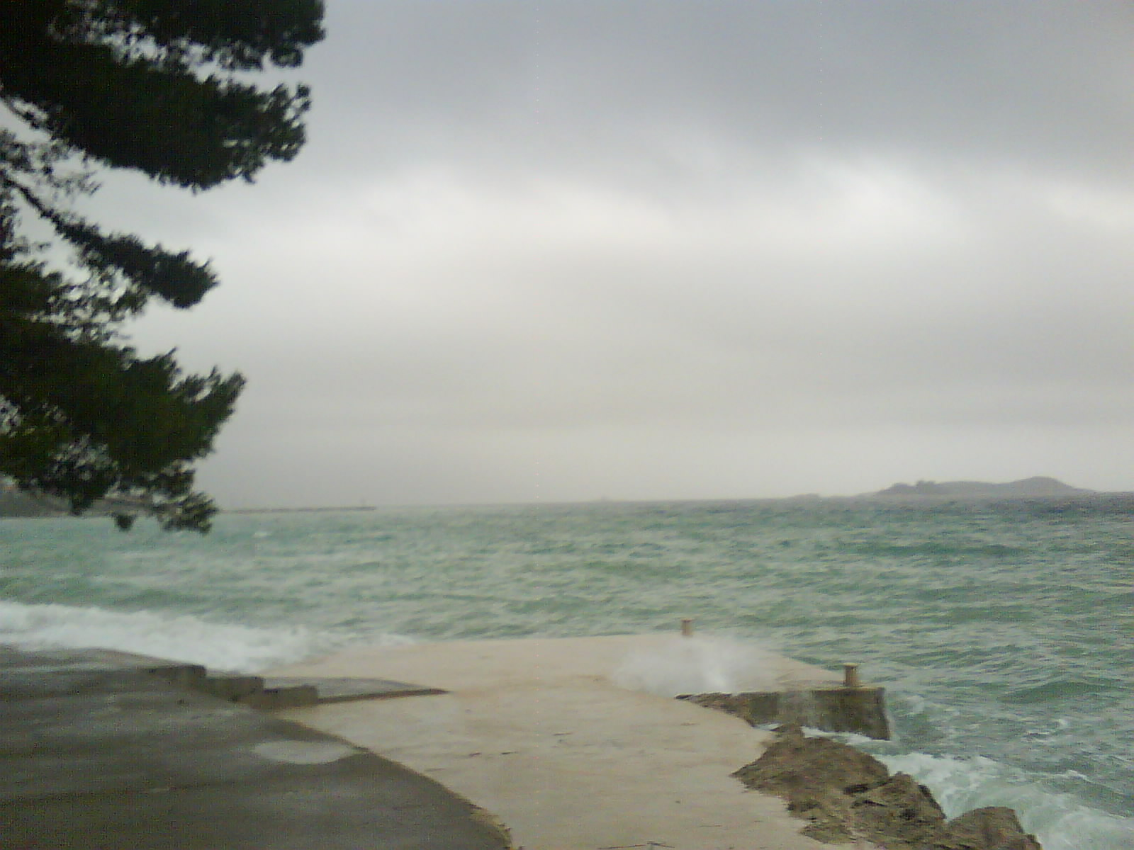 Škvar promenade,Orebić during Jugo